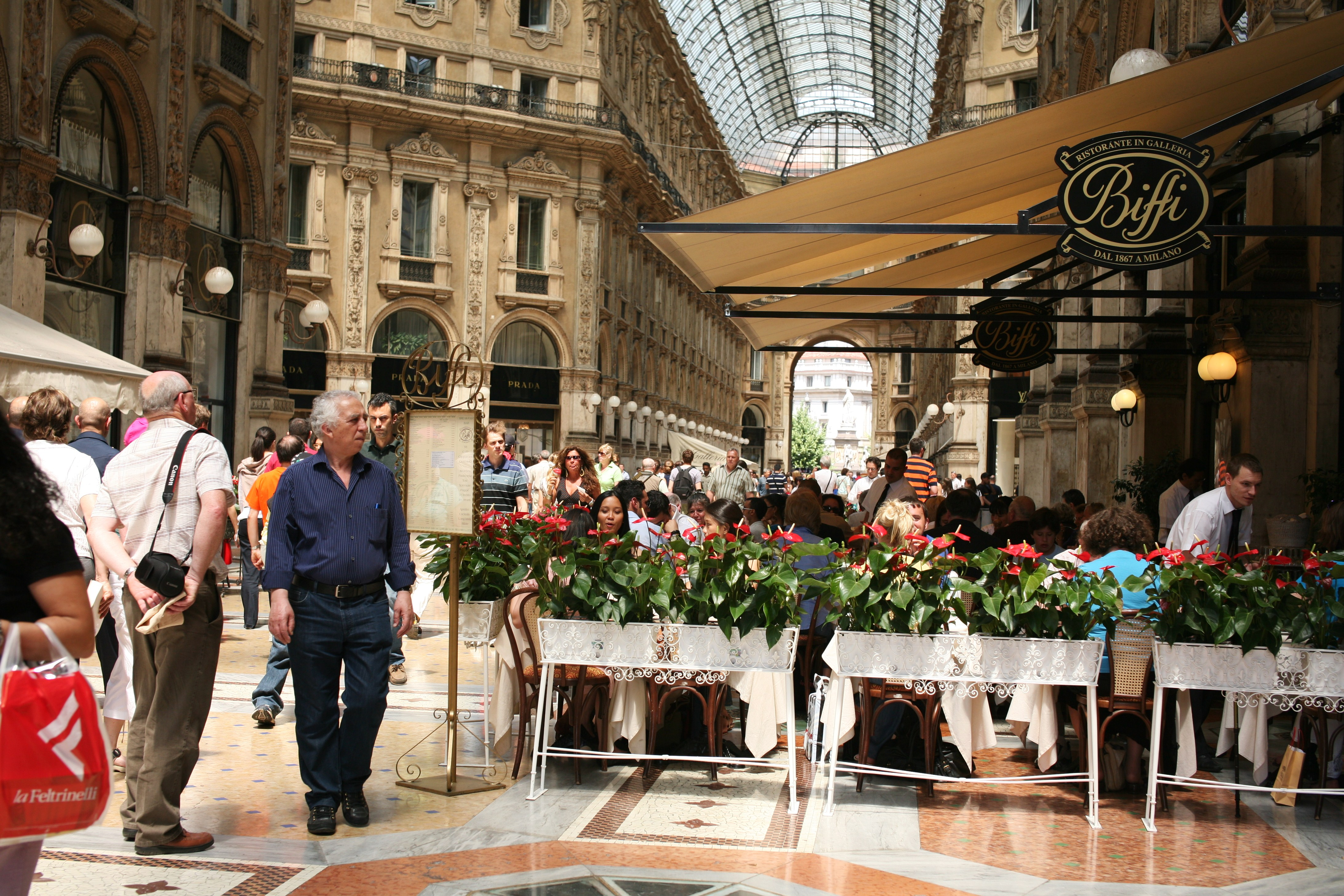 Galleria Vittorio Emanuele II (Milan)